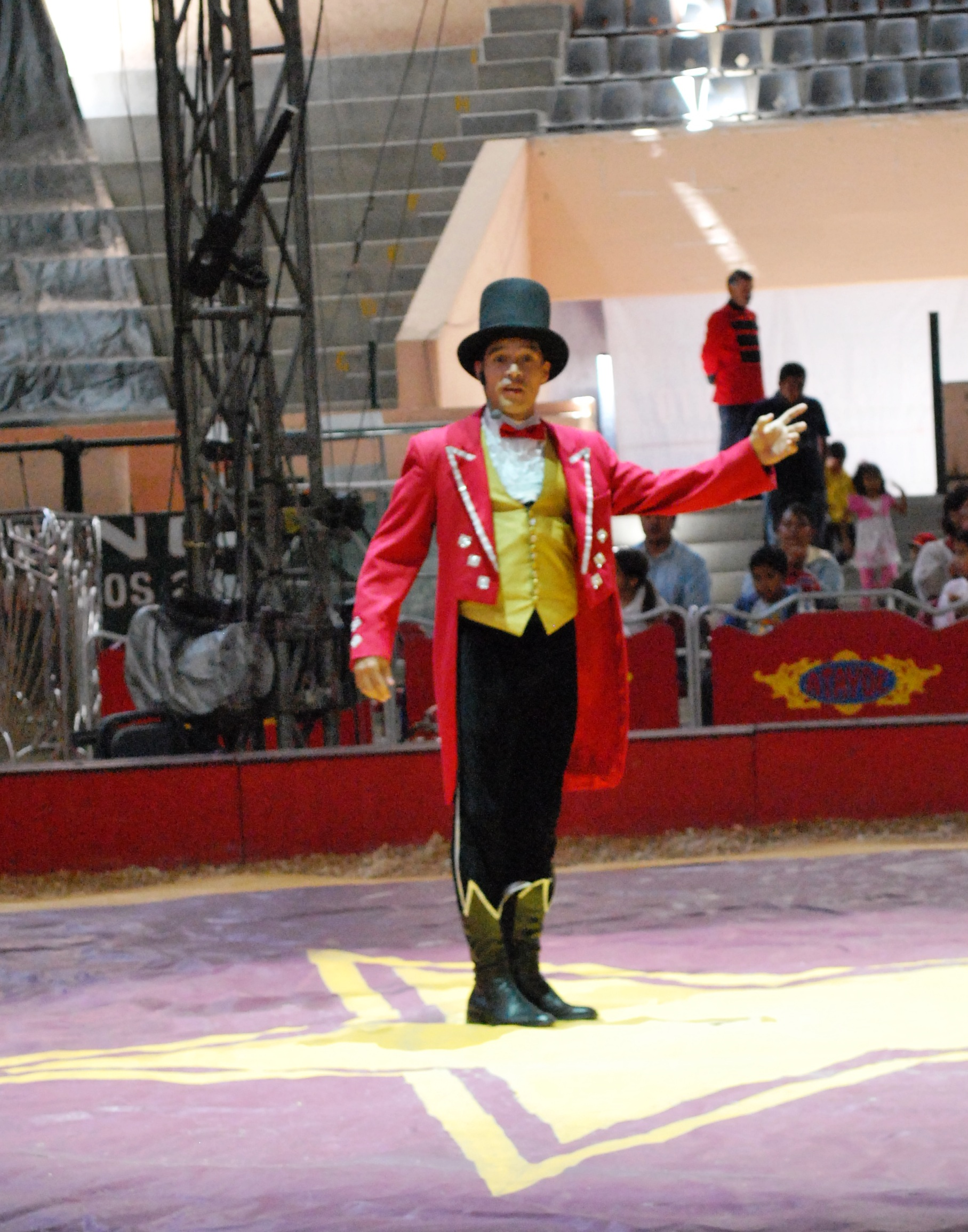 Ringmaster of the Circus Atayde at the Feria de Hidalgo 2009 in Pachuca, Hidalgo, Mexico